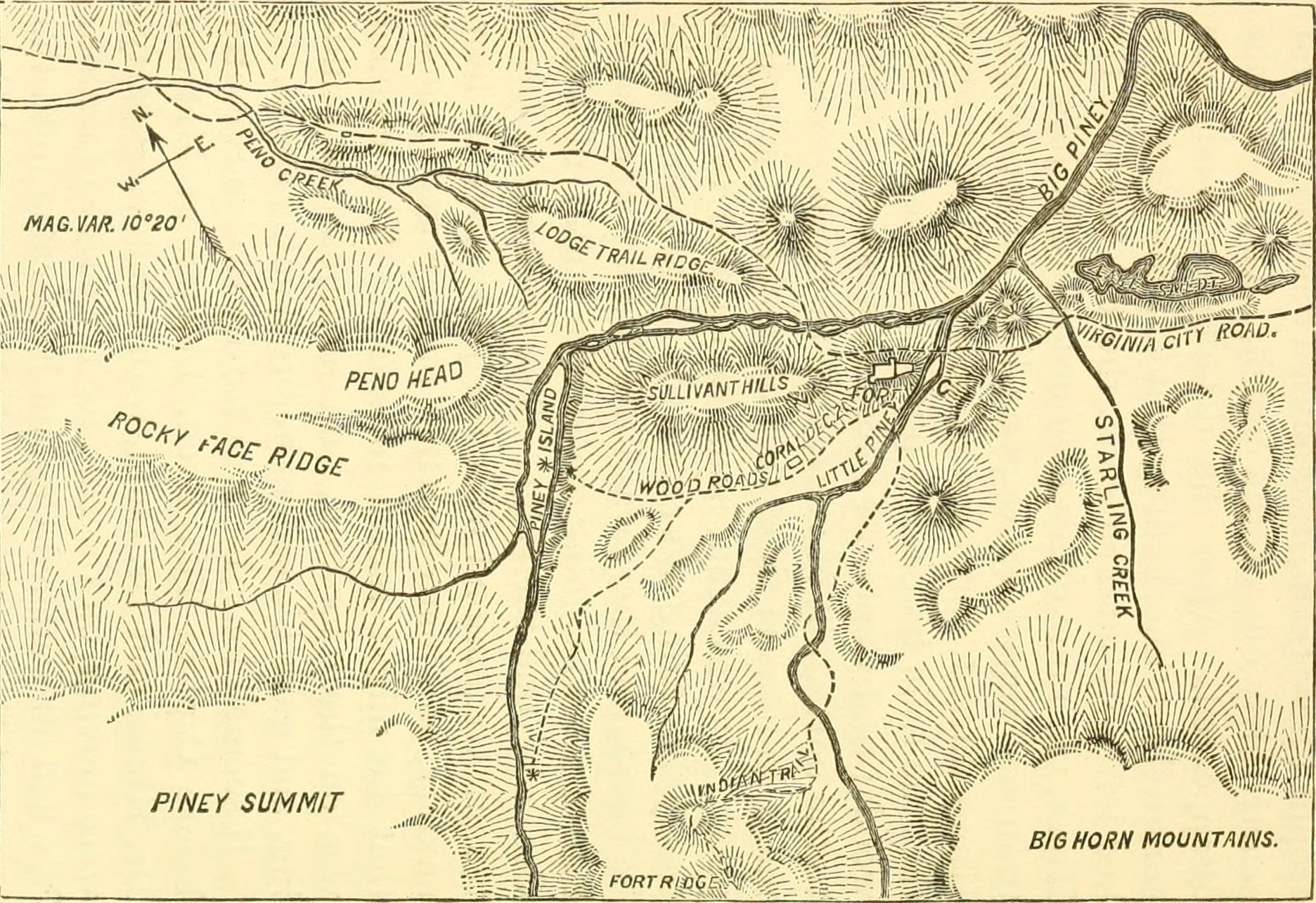 Title: Ab-sa-ra-ka; or, Wyoming opened: Year: 1896 (1890s) Authors: (Carrington, Margaret Irvin Sullivant) 1831-1870. (from old catalog) Carrington, Henry Beebee, 1824-1912, ed Subjects: Frontier and pioneer life Indians of North America Indians of North America Crow Indians Fetterman Fight, Wyo., 1866 Publisher: Philadelphia (etc.) J.B. Lippincott company Text Appearing Before Image: ^ heartfelt prayers were offeredthat he might return in safety. The colonelwas on the lookout, on headquarters build-ing, and gave his orders before coming down. It seemed long, but was hardly twelve minutesbefore Captain Ten Eyck, Lieutenant Matson,Dr. Hines, and Dr. Ould, with a relieving party,were moving, on the run, for the scene of action.We had all watched Captain Fetterman until thecurve of Sullivant Hills shut him ofi, and thenhe was on the southern slope of the ridge, ap-parently intending to cut off the retreat of the In- 204 ABSAEAKA Text Appearing After Image: FORT PHILIP KEARNEY AND SURROUNDINGS, FROM ORIGINAL SURVEYS. * Indicates block-houses in Tvoods for working parties. Dotted line, roads to Pine Island and Mountain. Broken line, road to Virginia City, crossing narrow divide where bodies of Fet- terinans command were found.C, cemetery at foot of Pilot Hill.□ Corral, on road to woods, where train was attacked December 21st, 1866. FETTERMANS MASSACRE. 205 dians from the train. Wagons and ambulanceswere hurried up; the whole garrison was on thealert; extra ammunition for both parties wasstarted, and even the prisoners were put on dutyto give the guard and all available men theirperfect freedom for whatever might transpire.Couriers were sent to the woods to bring backthe train and its guard, to secure its support, aswell as from the fear that the diversion of Cap-tain Fetterman from his orders might still in-volve its destruction ; and shortly Captain Arnoldcame to report that the whole force of armedmen left at the post, including guard